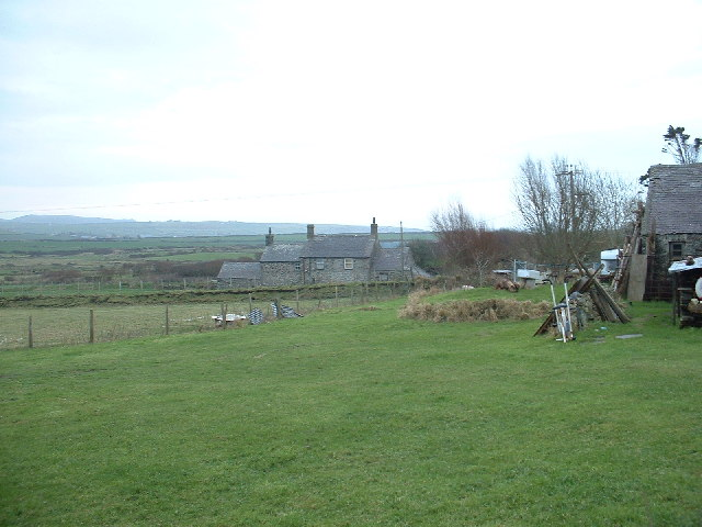 Cottages at Anelog